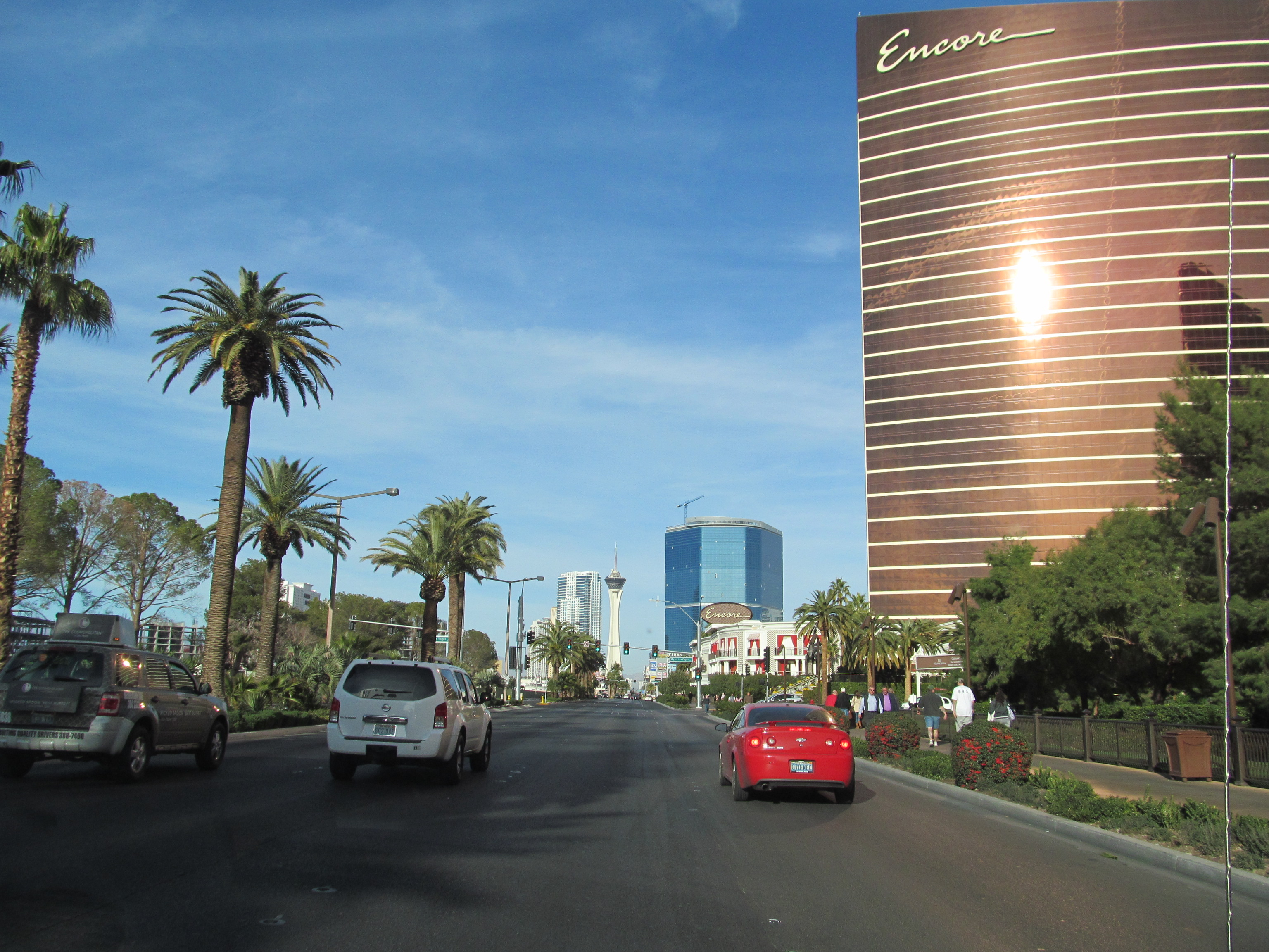 Las Vegas Boulevard northbound, Las Vegas Nevada